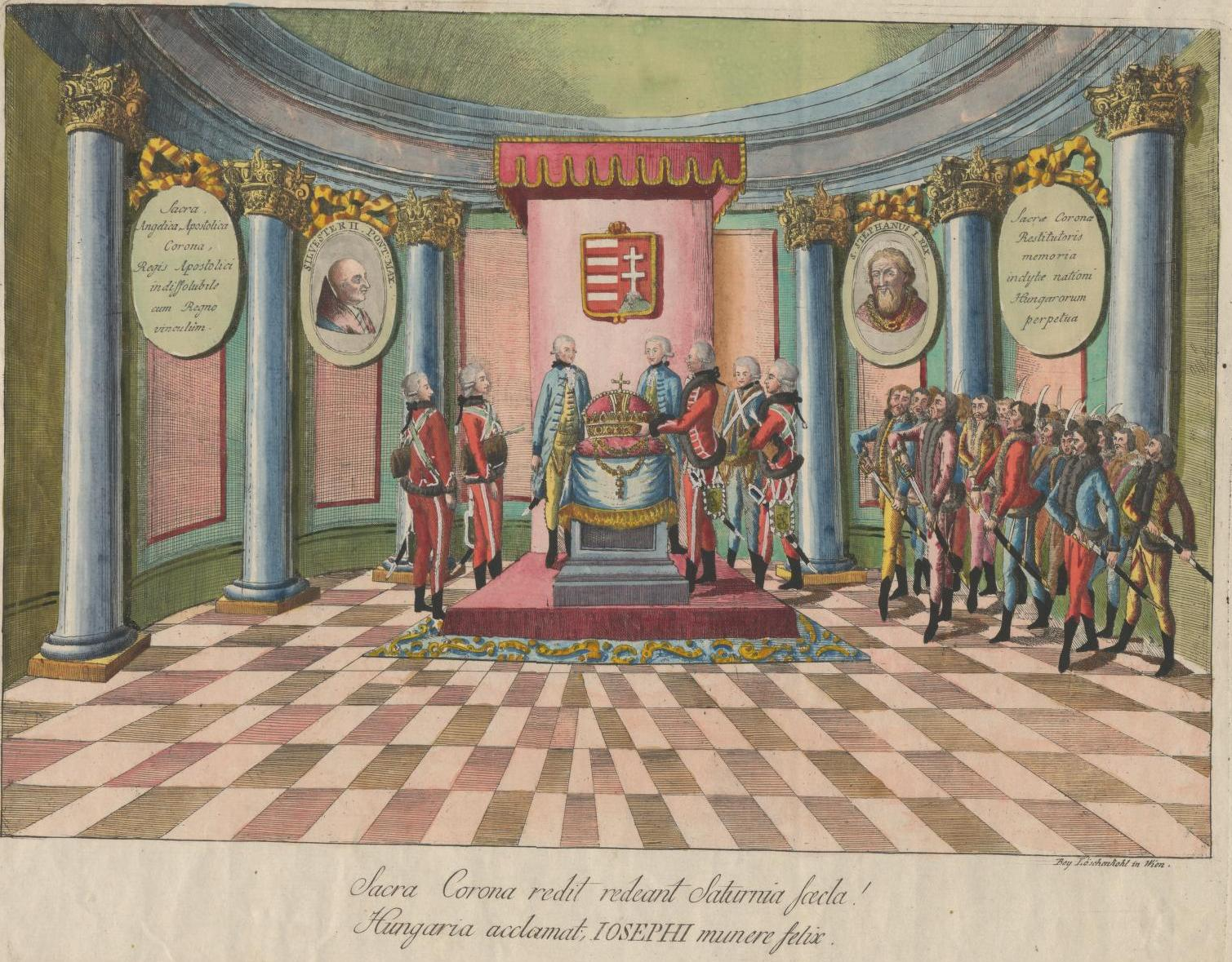 Sacra Corona redit redeant Saturnia saecla! Hungaria acclamat! Iosephi munere felix Hand-col. engr. by and after Löschenkohl; crown etc. on pedestal beneath canopy in circular hall, surrounded by hussars etc., group of magnates entering by door at right.